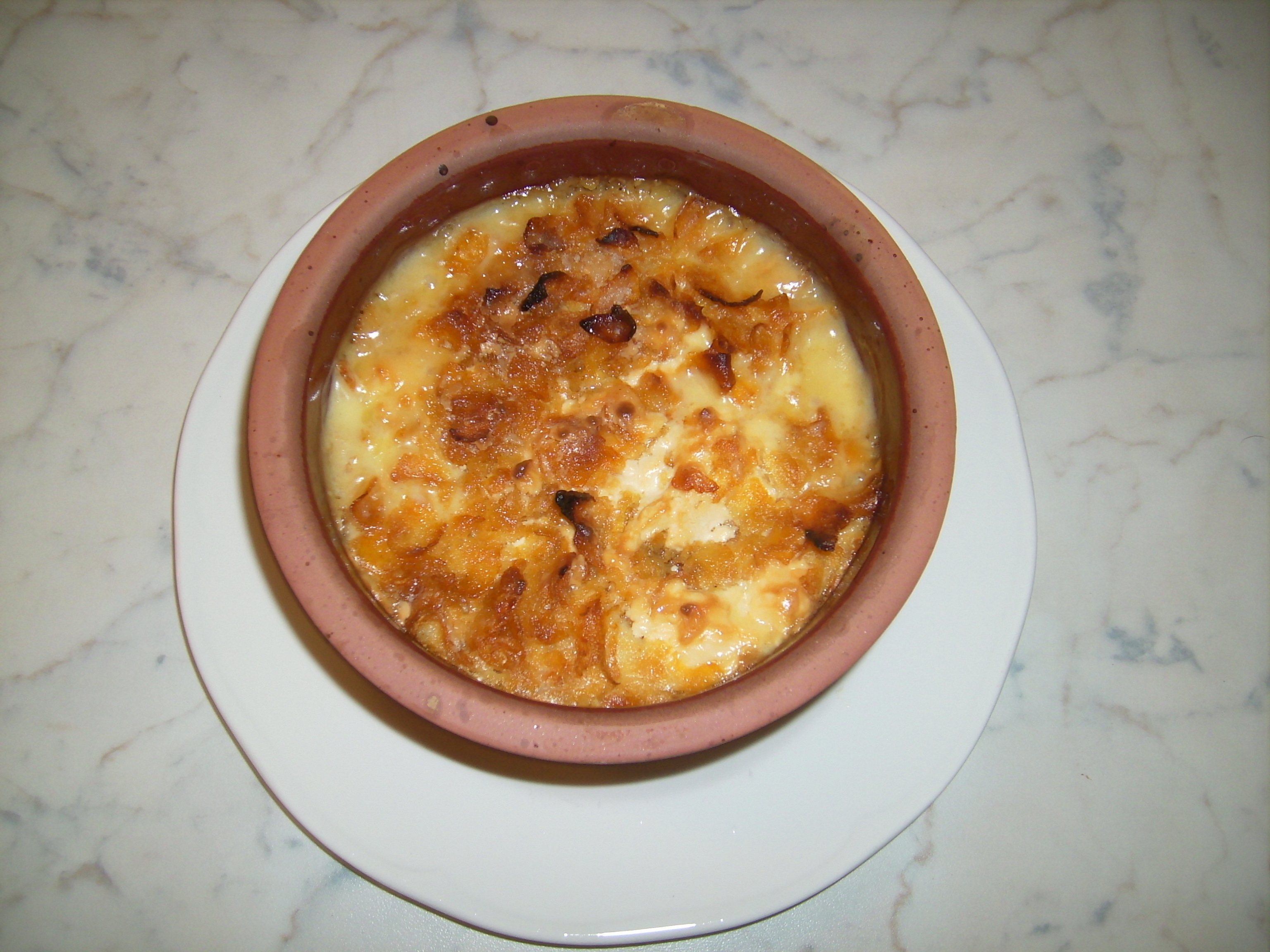 Umm Ali prepared in the oven.